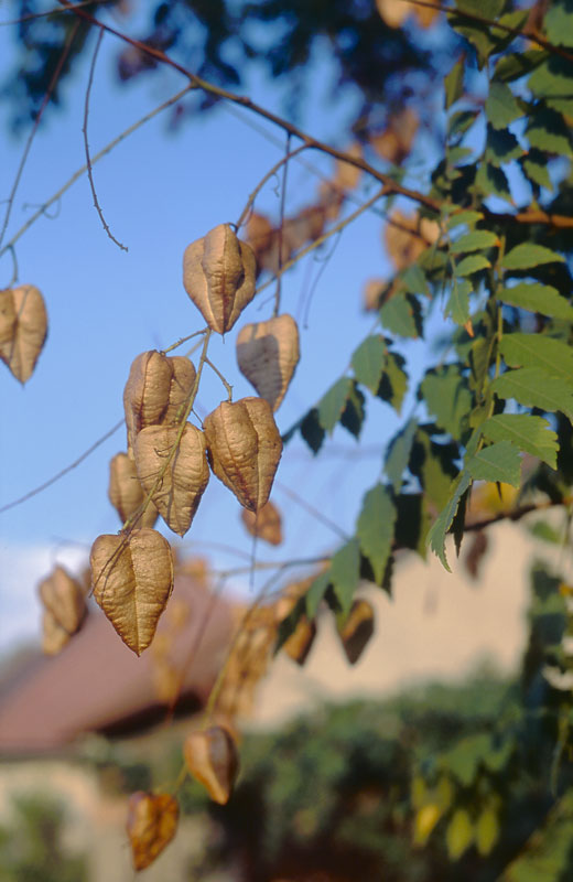 Koelreuteria paniculata in Mukachevo.